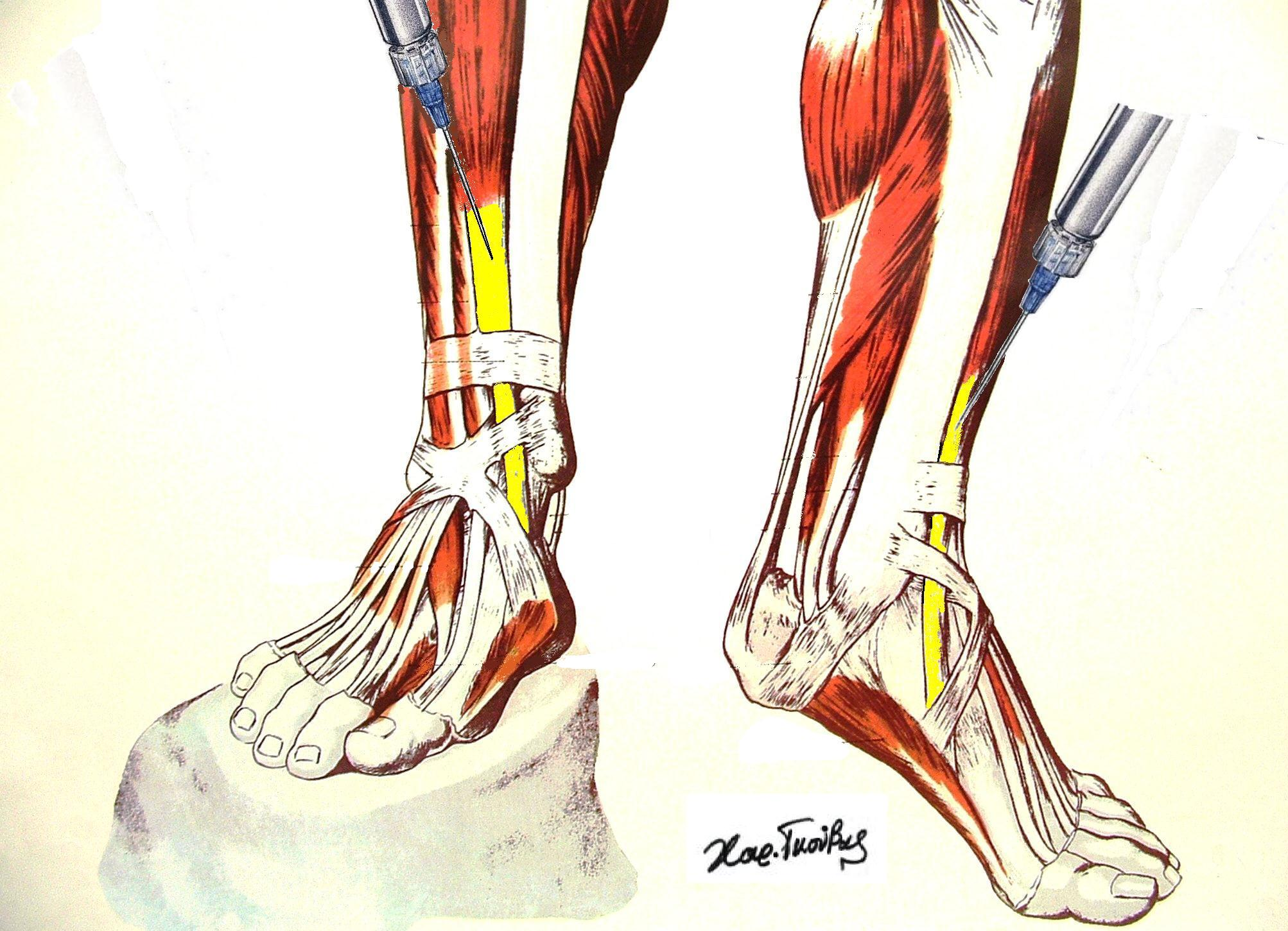 Harrygouvas